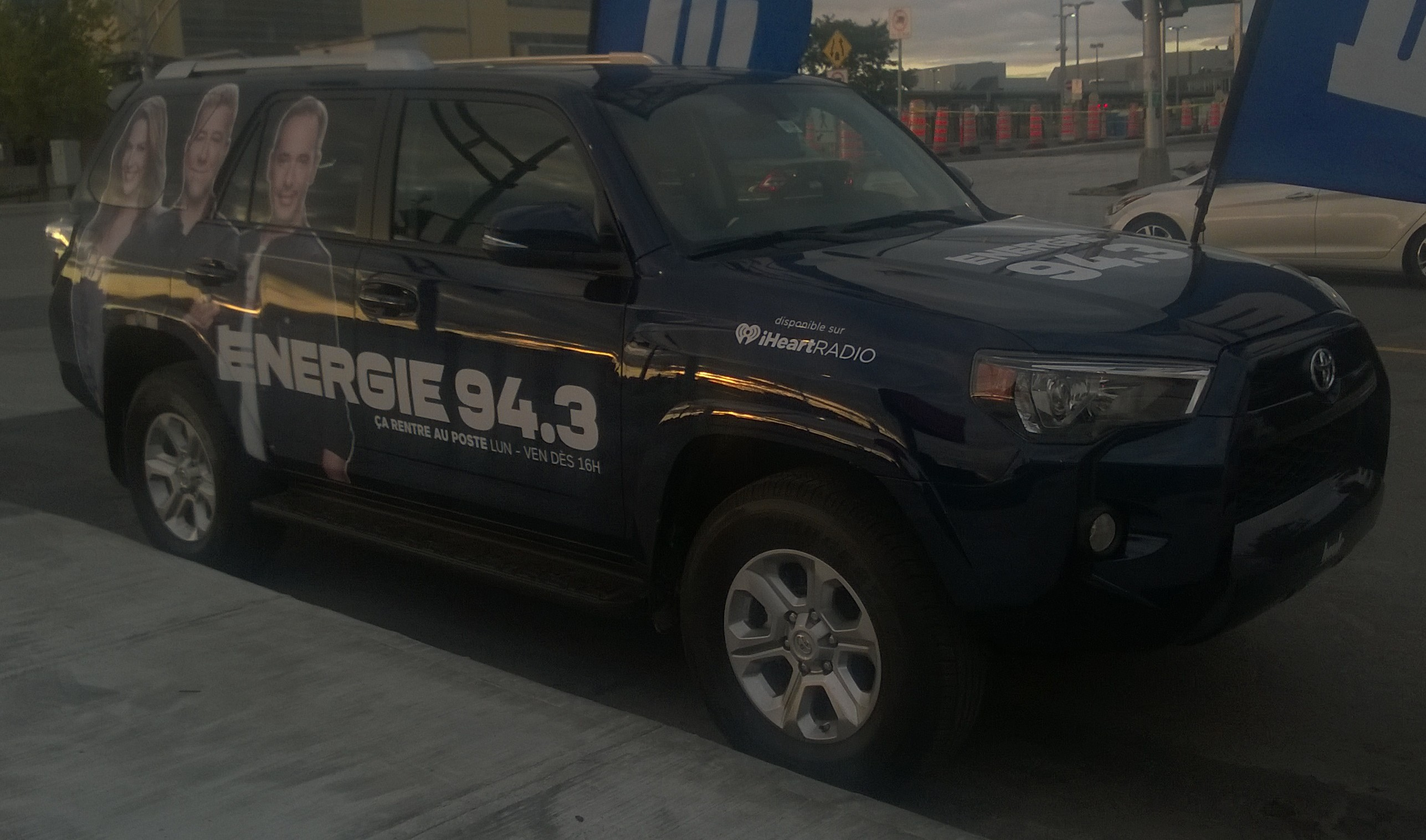 Toyota 4Runner photographed in Laval, Québec, Canada with a logo of CKMF-FM (Énergie 94,3), José Gaudet, Marie-Christine Proulx & Richard Turcotte.